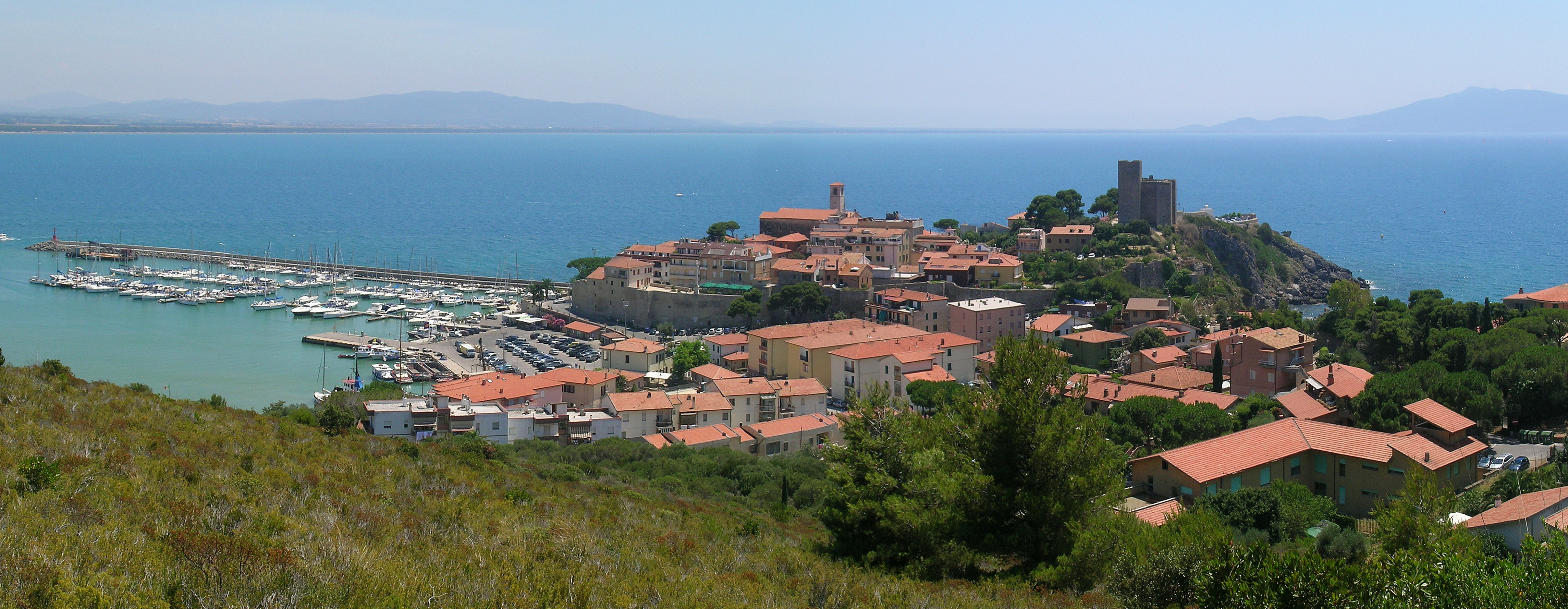 view of Talamone, a small town in southern Tuscany (Italy). I took 2 different views and I have stitched them together with Hugin. Unfortunately it has minor stitching errors on the left side of the bell tower...